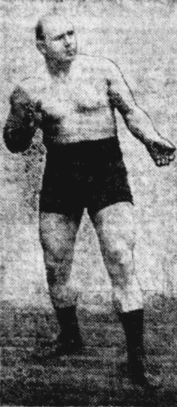 Original Caption: JOE BAILEY, who will meet Billy Meeske at the Stadium on Wednesday night for the Heavyweight Wrestling Championship of Australia. It will be a fierce fight between rival champions.